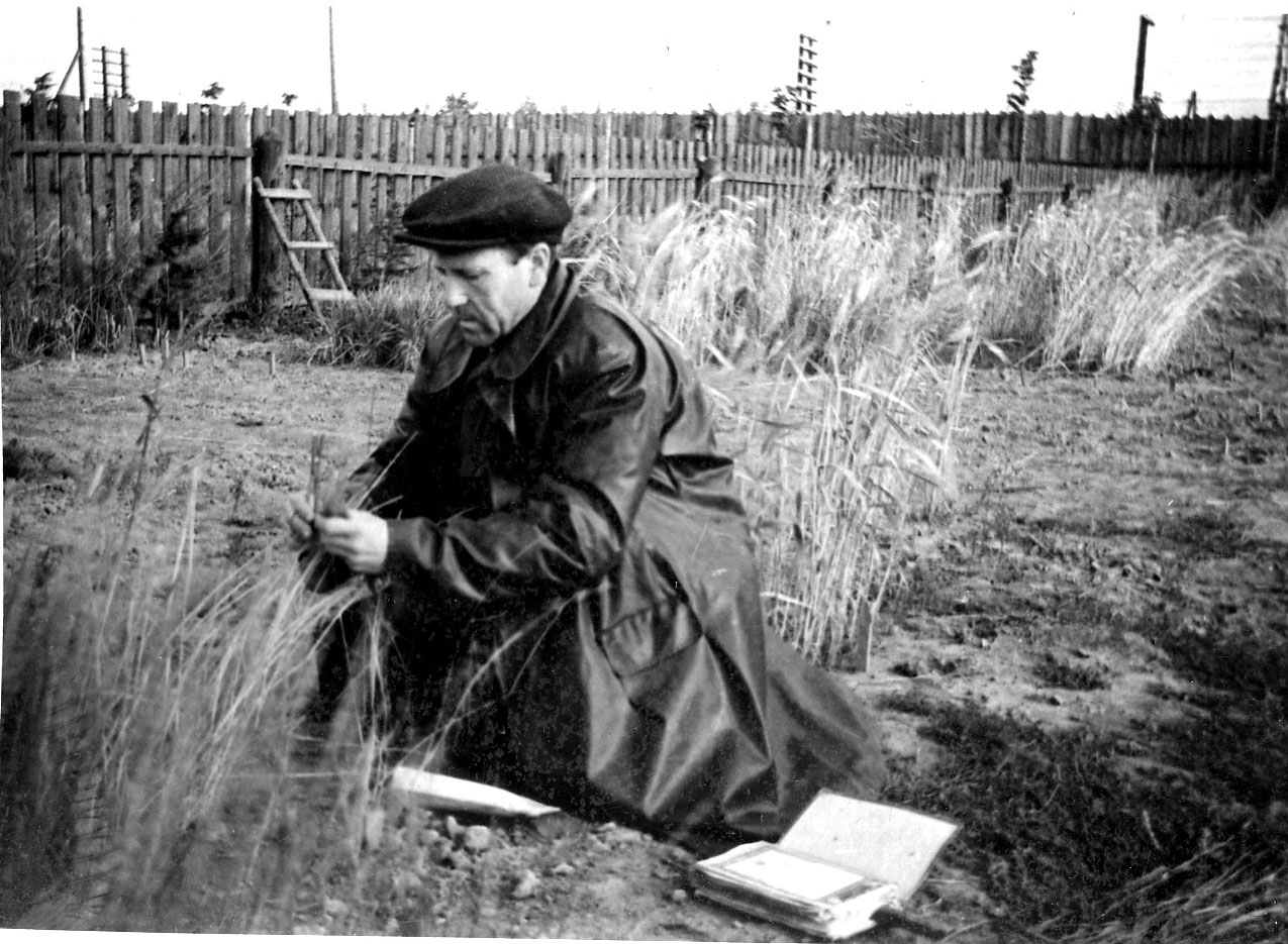 Russian scientist Vigorov, Leonid Ivavovich in the wheat field (1956, Sverdovsk, USSR)